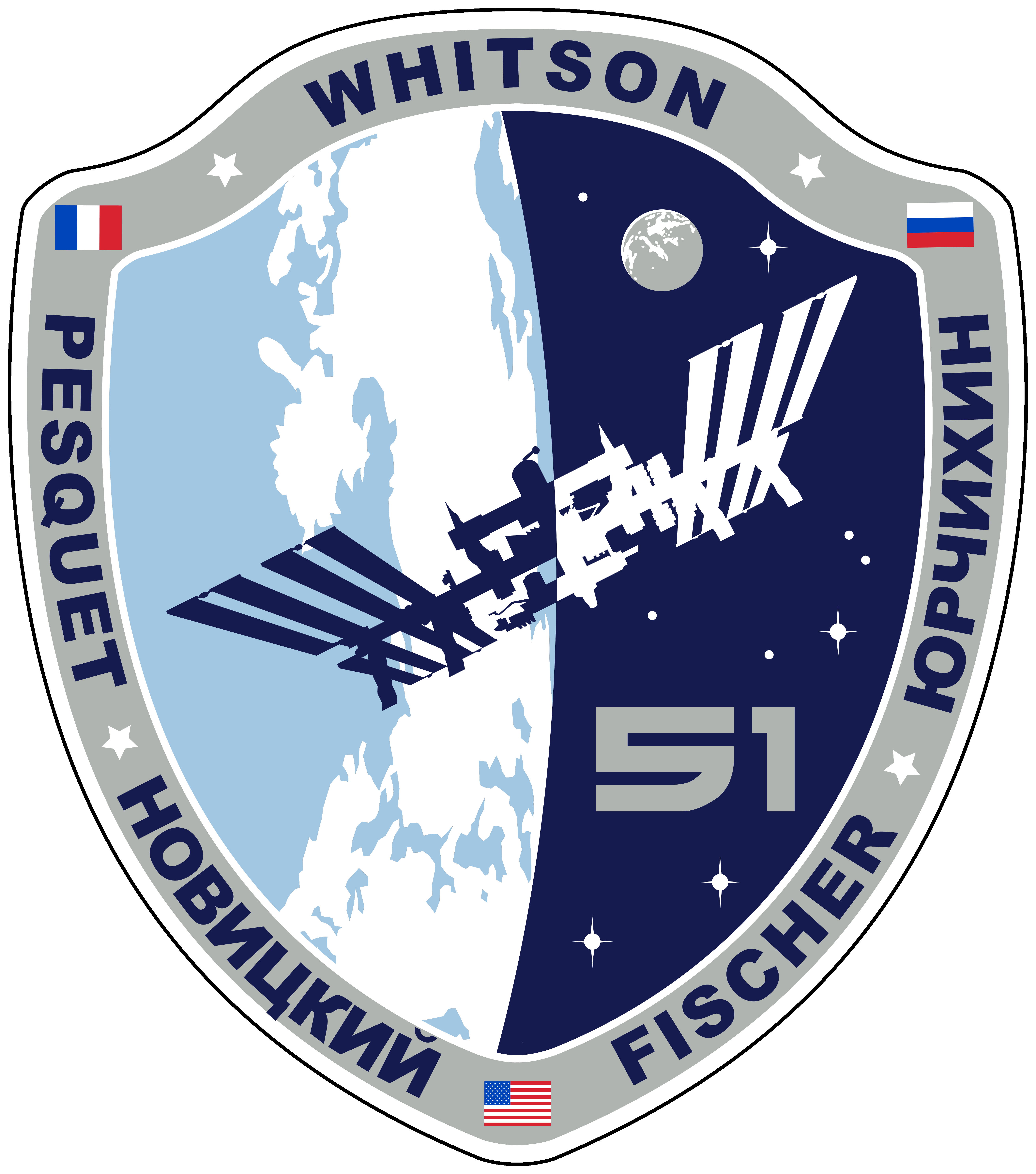 Official crew patch of Expedition 51 during their mission to the International Space.